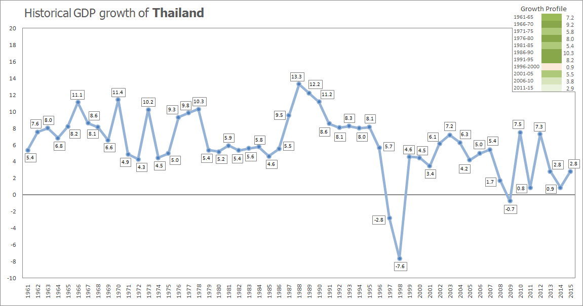 The chart shows the economic growth of Thailand from 1961-2015. Also shown are the five-year averages in the same time frame.